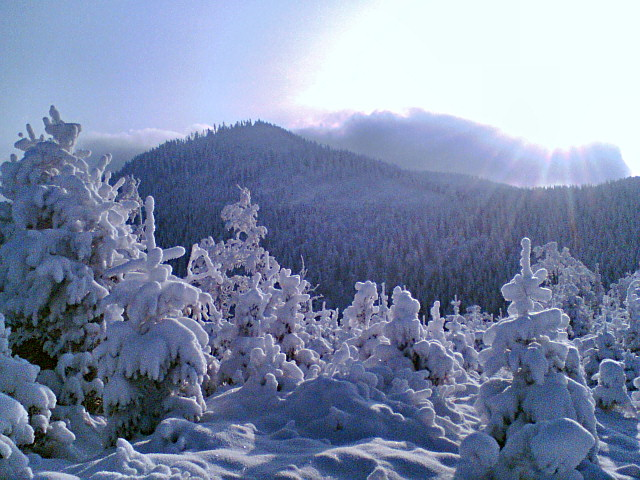 Kněhyně from Malá Stolová hora Česky: Kněhyně z Malé Stolové hory